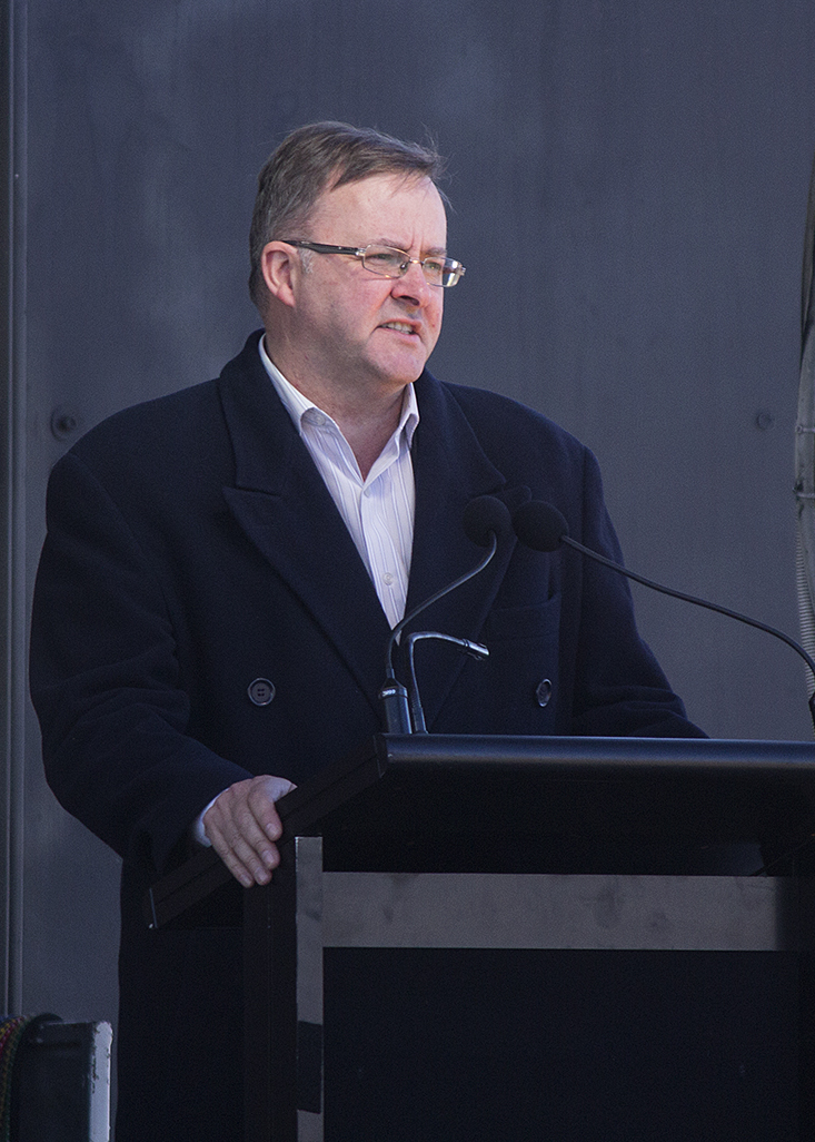 Minister for Infrastructure and Transport, Anthony Albanese speech at the Holbrook bypass open day.